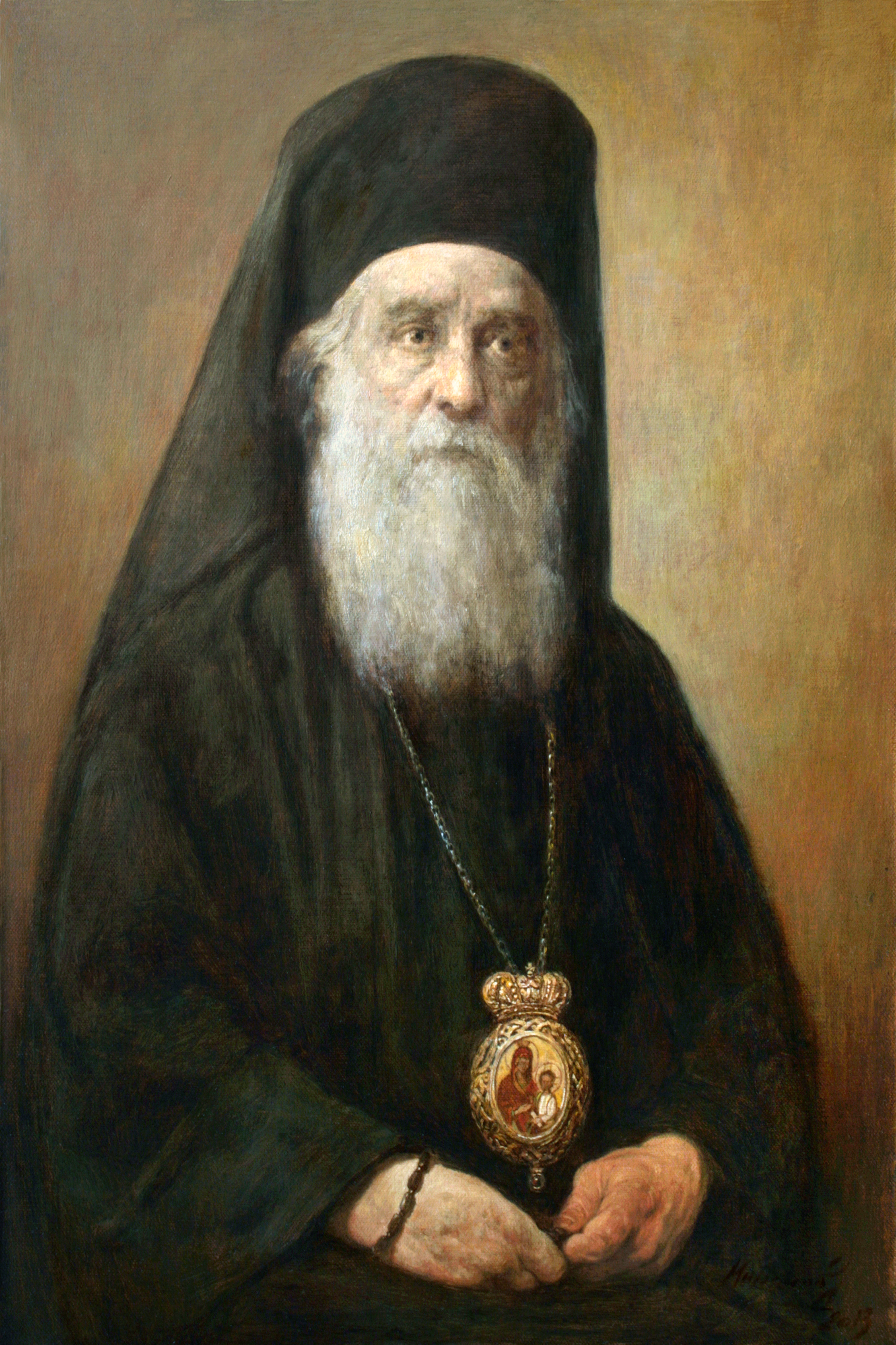 Saint Nectarios, Metropolitan pentapol'skij Wonderworker of Aegina. 2013 oil on Canvas. 60×40. Artist A.N. Mironov